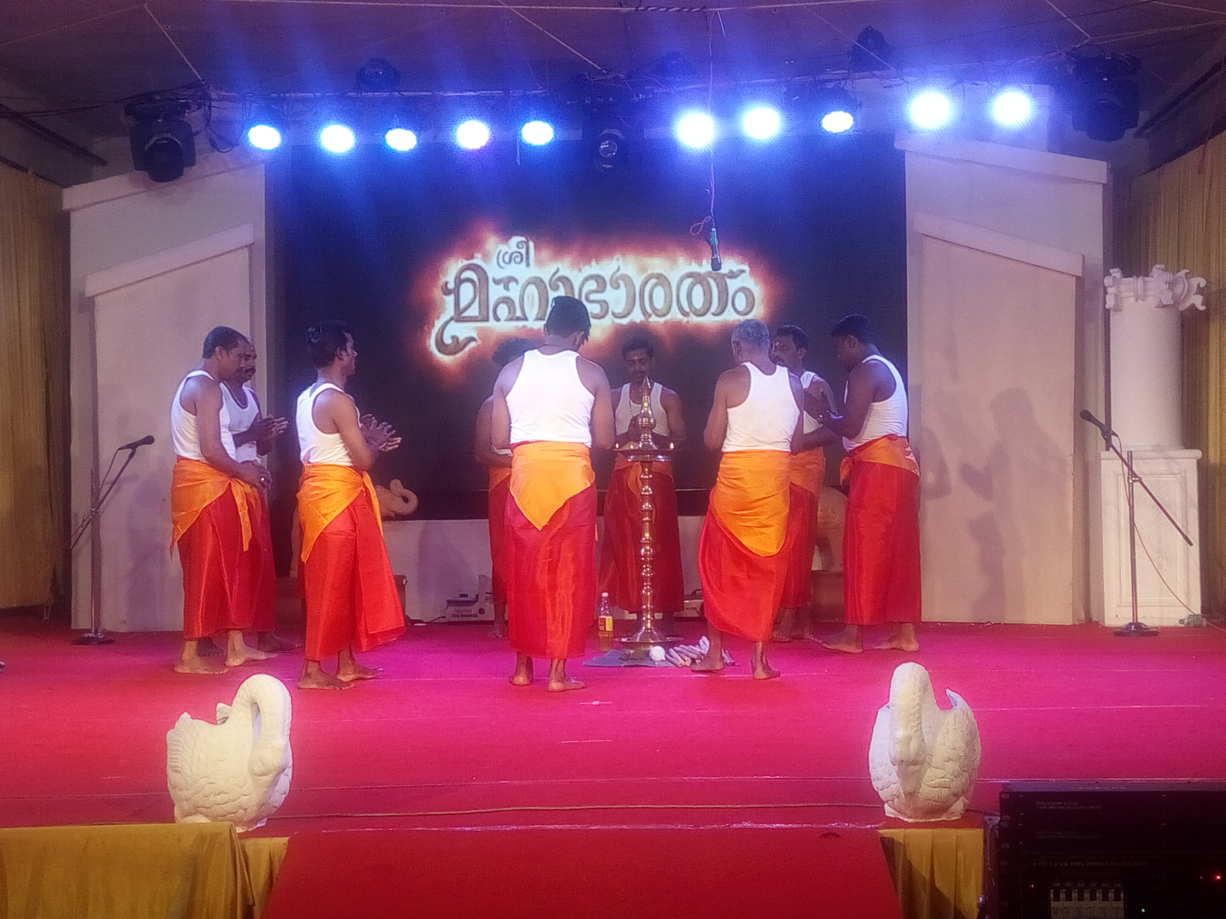 Aiver kali is a traditional art in valluvanad of Kerala, India.